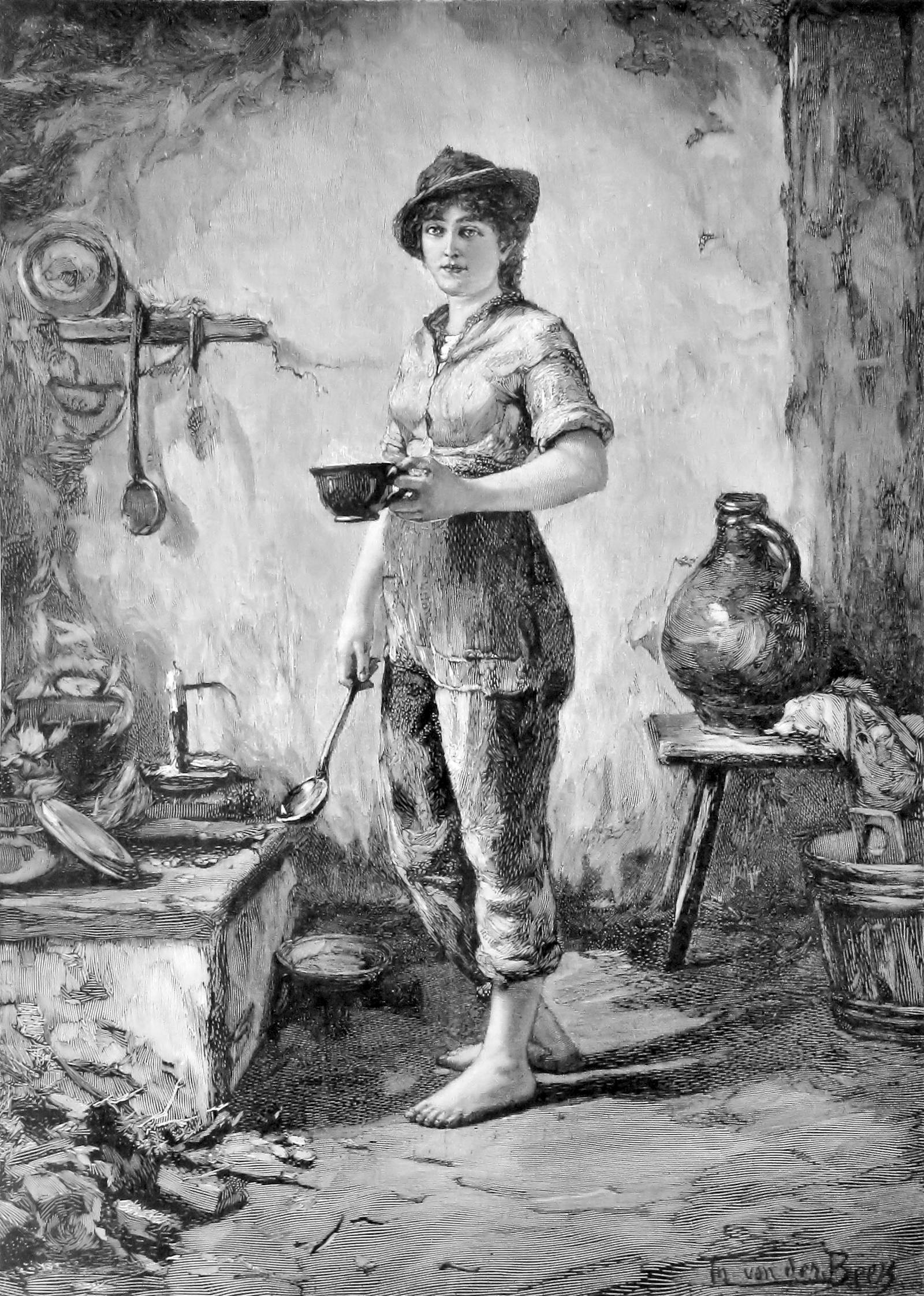 caption: "Die Sennerin Wirl. Nach einem Gemälde von Th. v. d. Beck."